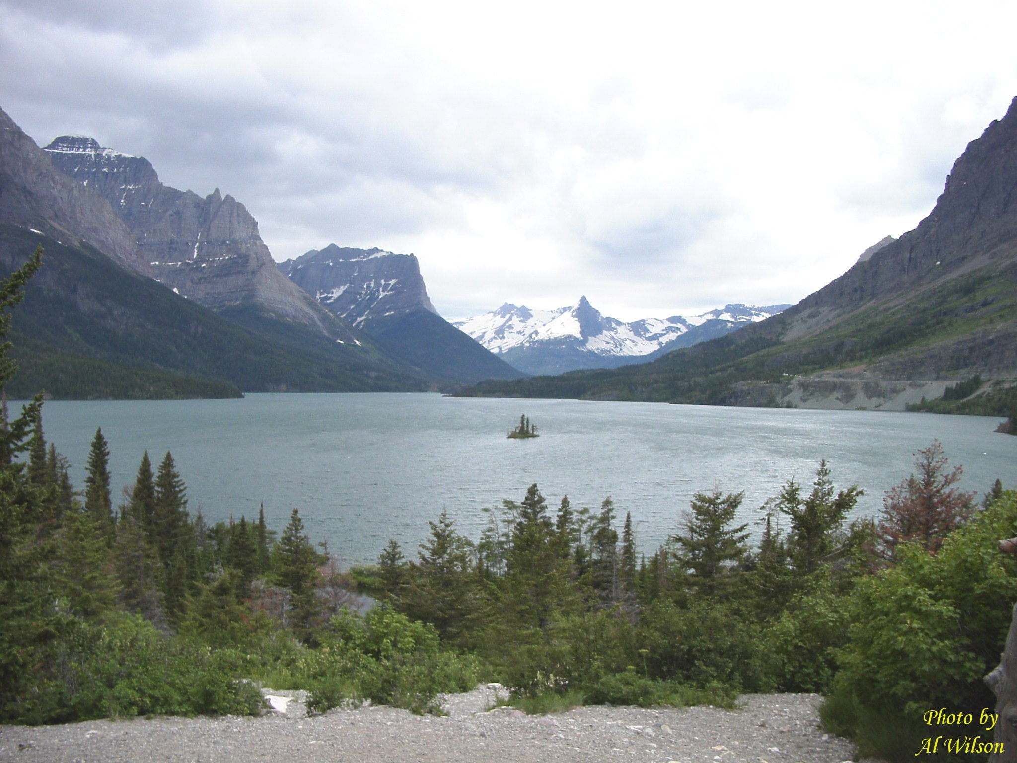 Glacier National Park (U.S.), St. Mary Lake